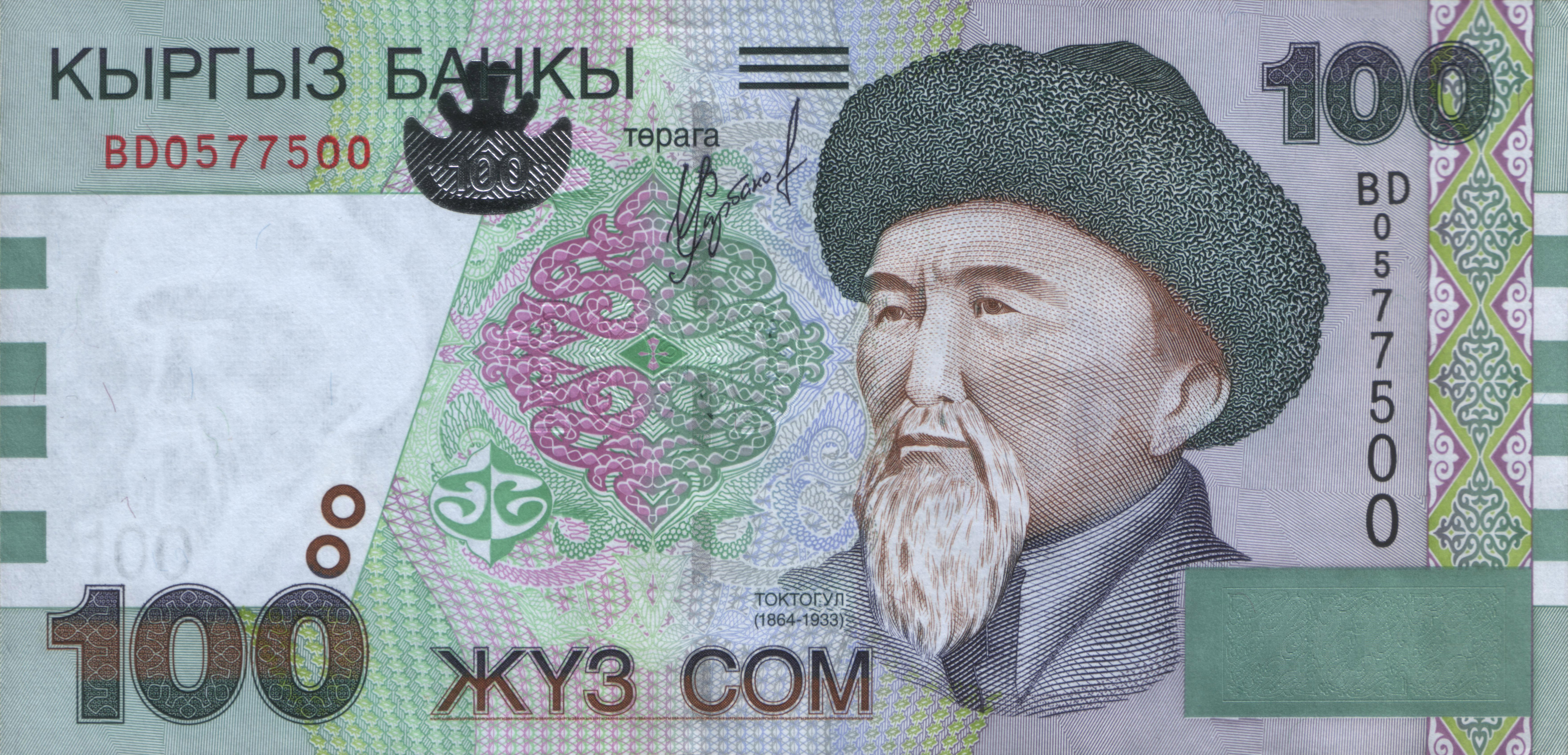 100 som of Kyrgyzstan (2002)